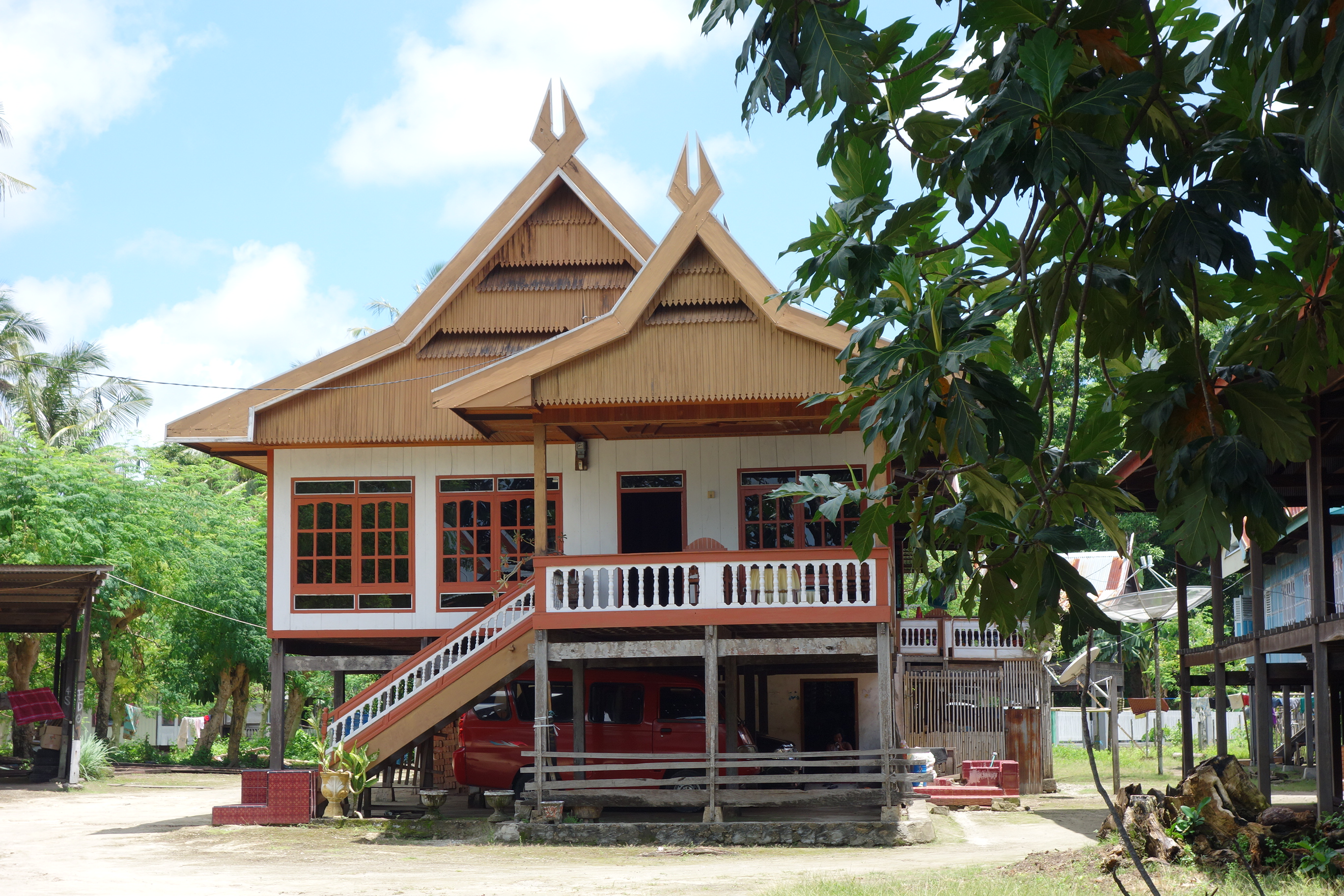 A traditional house of Bugis people, South Sulawesi. March 2014.